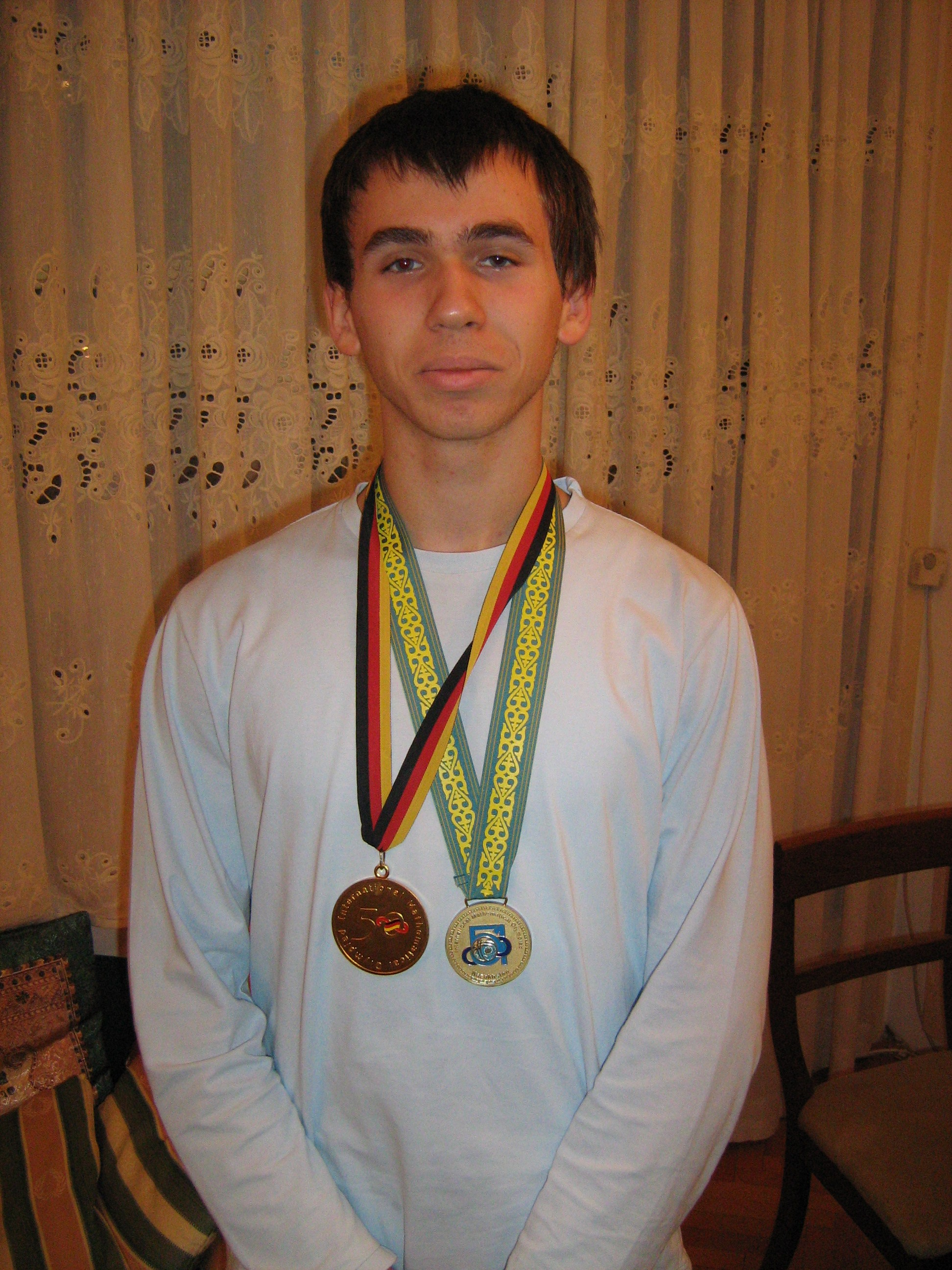 Teodor von Burg with the gold medals he won at the IMOs 2009 in Germany and 2010 in Kazakhstan.